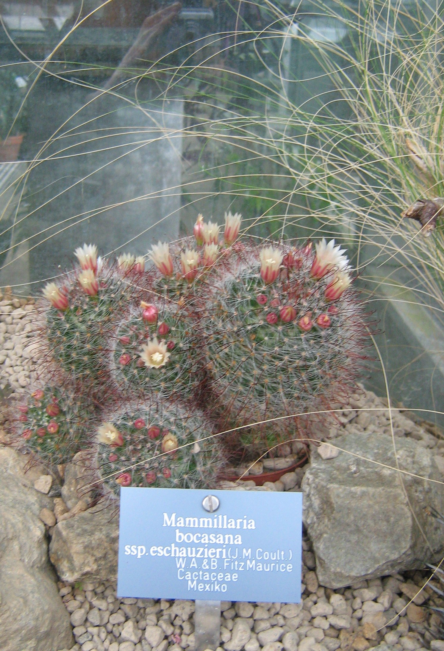 Mammillaria bocasana in the botanic garden of Berne